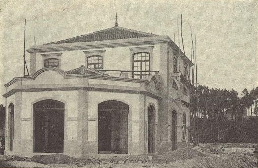 Construction works of the São Gemil Railway Station, in the Leixões Railway, in Portugal. This photograph was published in the Gazeta dos Caminhos de Ferro magazine No. 1132, of 16th February 1935, and scanned by the Hemeroteca Municipal de Lisboa.